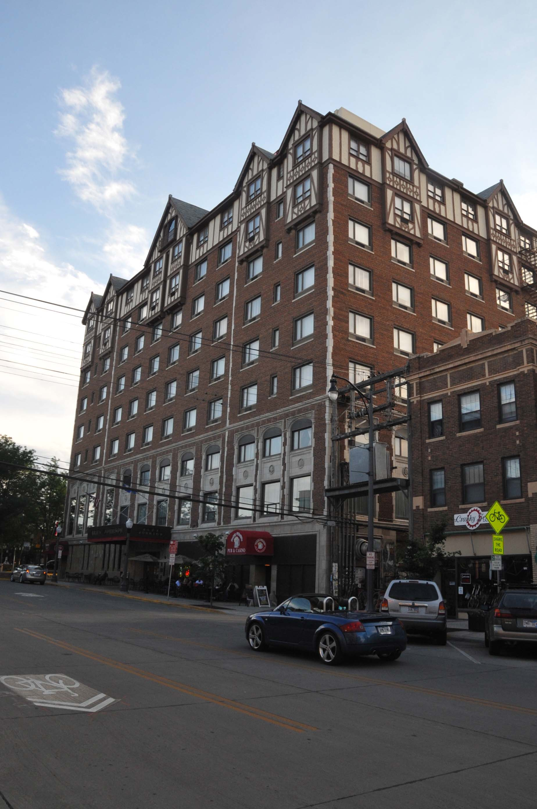 ALEX JOHNSON HOTEL; OPENED IN 1928; DESIGNED AS A TRIBUTE TO THE SIOUX INDIAN NATION AND THE GERMAN IMMIGRANTS THAT SETTLED IN THE DAKOTAS, HOTEL ALEX JOHNSON IS THE EPITOME OF HISTORIC PRESERVATION. THIS MAJESTIC SOUTH DAKOTA HISTORIC HOTEL HAS PLAYED HOST TO NUMEROUS DIGNITARIES, CELEBRITIES, AND PRESIDENTS. IT WAS FEATURED IN HITCHCOCK’S MOVIE “NORTH BY NORTHWEST”; THIS IS A PREMIER SITE IN THE HISTORIC DISTRICT